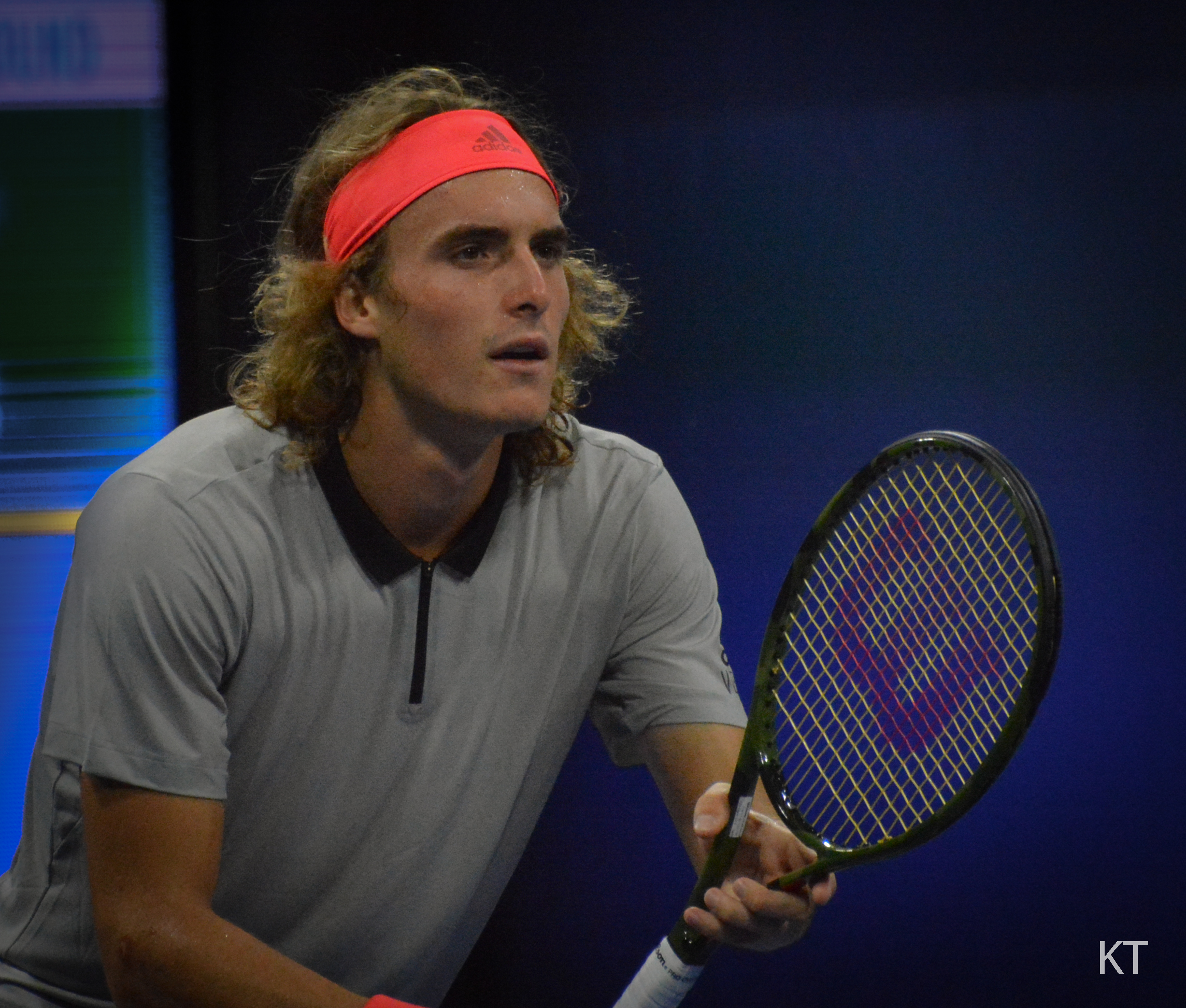 First round of men's doubles: Cam Norrie & Diego Schwartzman v Dusan Lajovic & Stefanos Tsitsipas. Day 4 of US Open 2018.